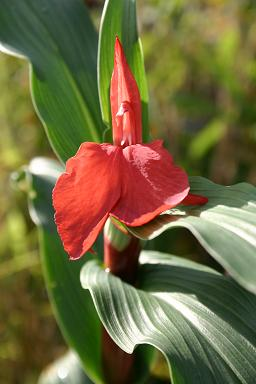 Roscoea purpurea f. rubra (also known as 'Red Gurkha') in cultivation